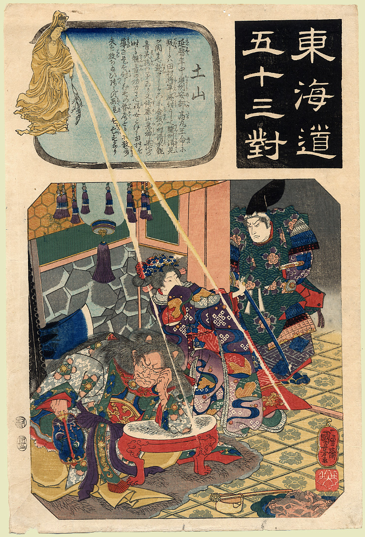 "The 53 stations of the Tōkaidō in pairs" (or "53 Parallels for the Tōkaidō Road"), Tsuchiyama. The print depicts Tamura Shogun, directed by Kwannon in the guise of a woman, about to attack the demon god of Mount Suzuka.